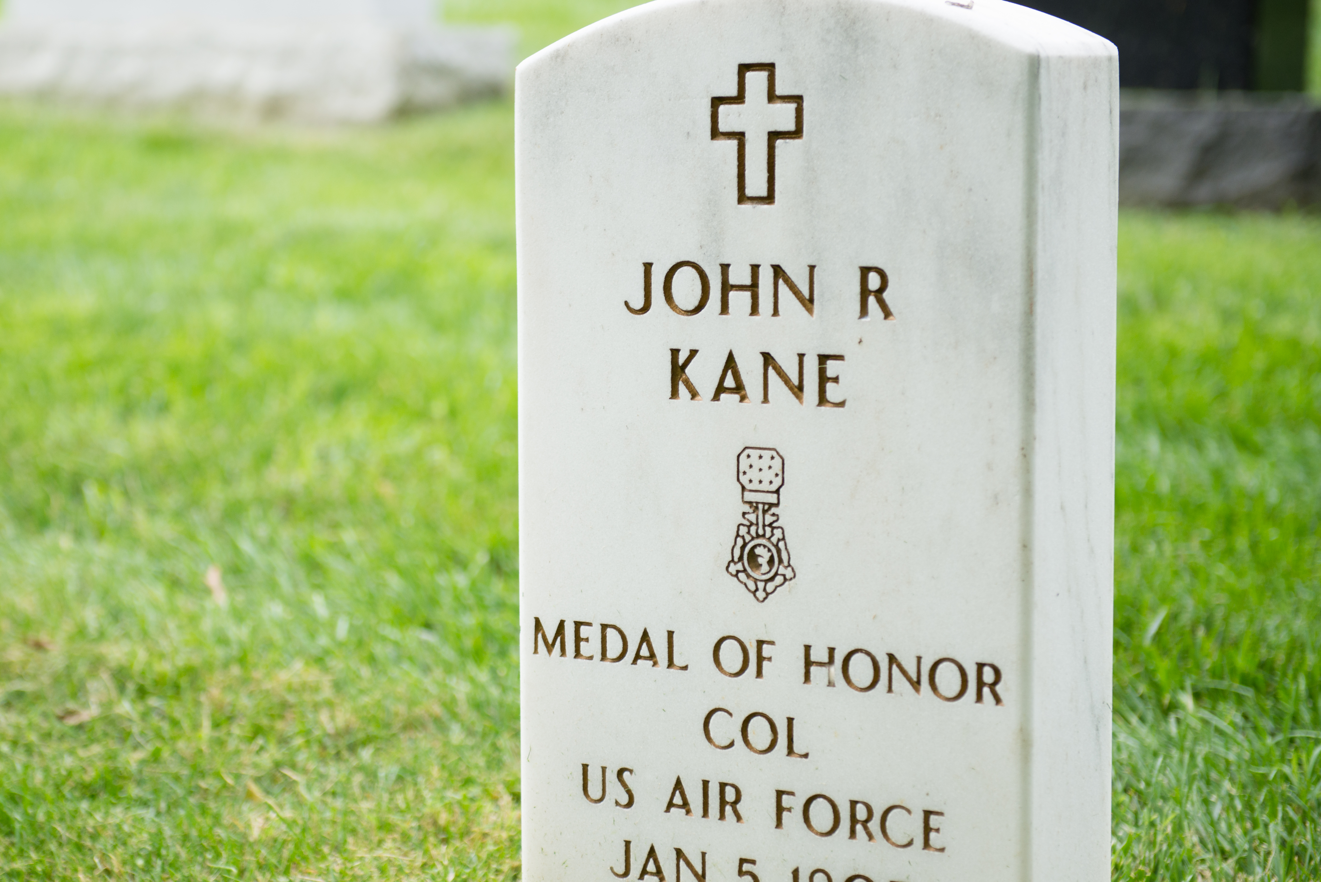 U.S. Air Force Col. John R. Kane, born Jan. 5, 1907 and died May 29, 1996, is buried in Section 7A, Grave 47 of Arlington National Cemetery. Kane was a Medal of Honor recipient. (U.S. Army photo by Rachel Larue/released)